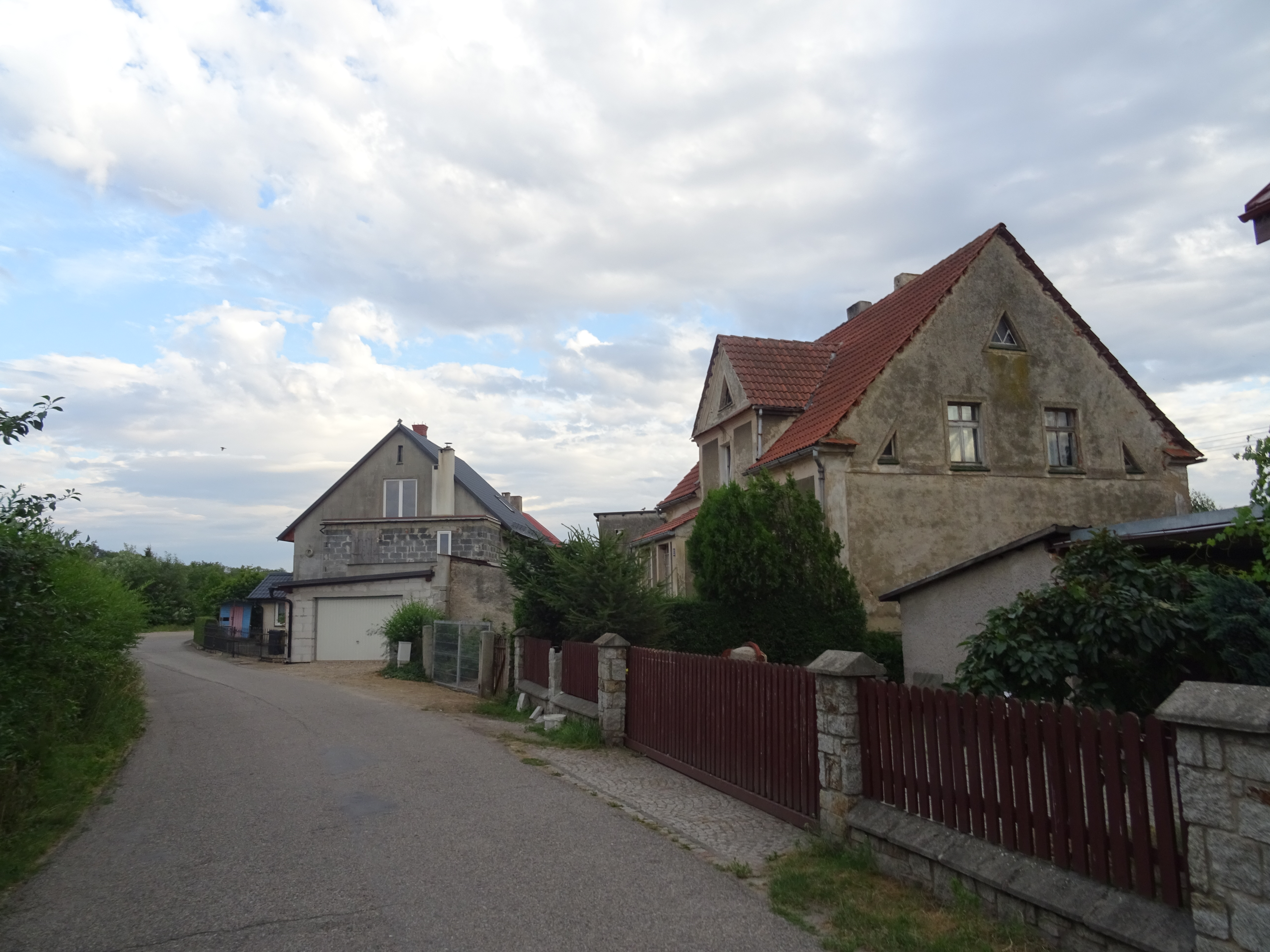 This photograph was created as a part of Wikiexpedition Lower Silesia, a project supported by Wikimedia Poland grant.